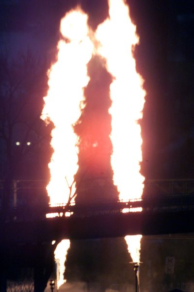 Controlled burning of the gas in progress.